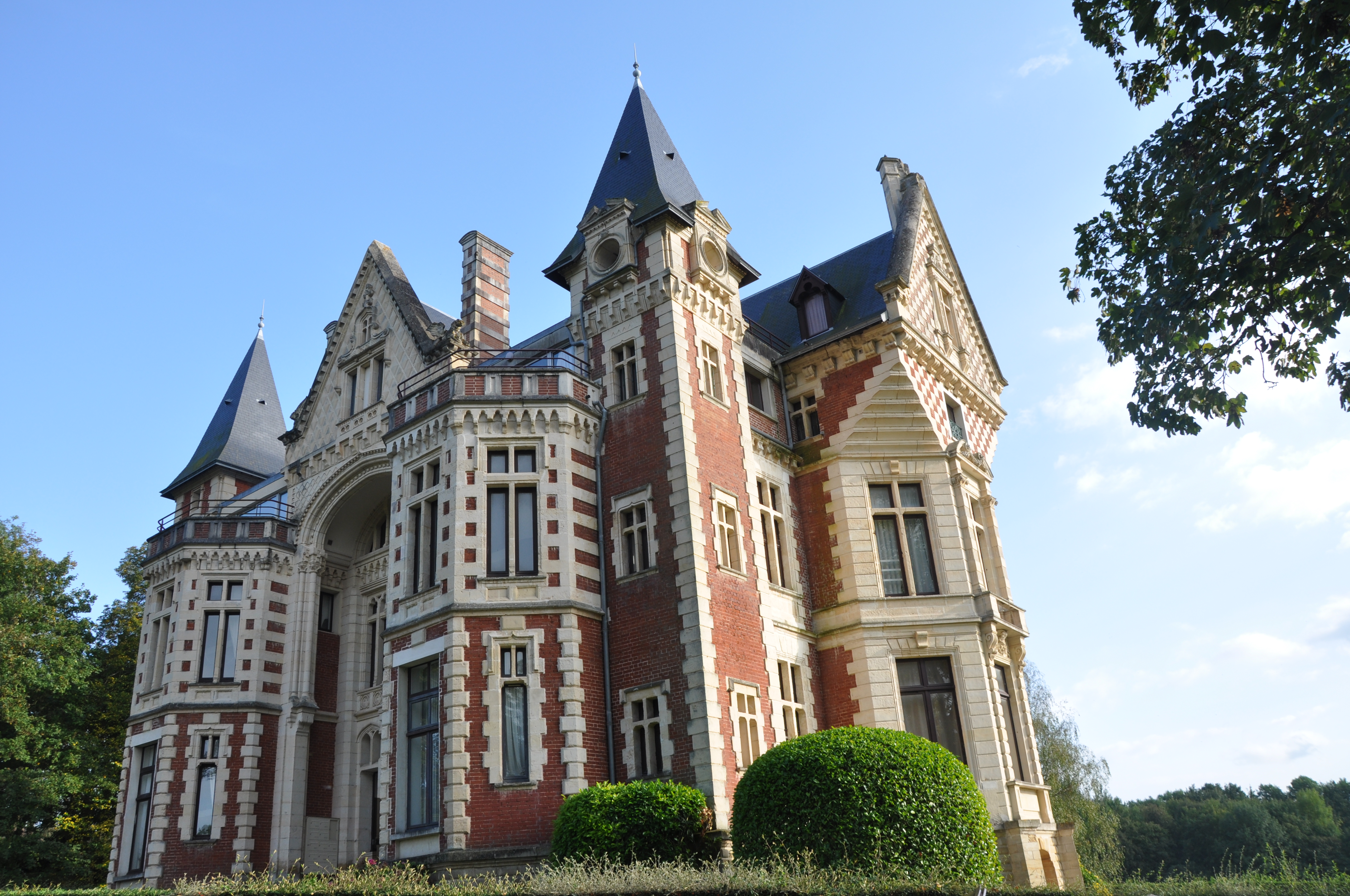 Houlgate (France, Normandy) : Castle of Beuzeval